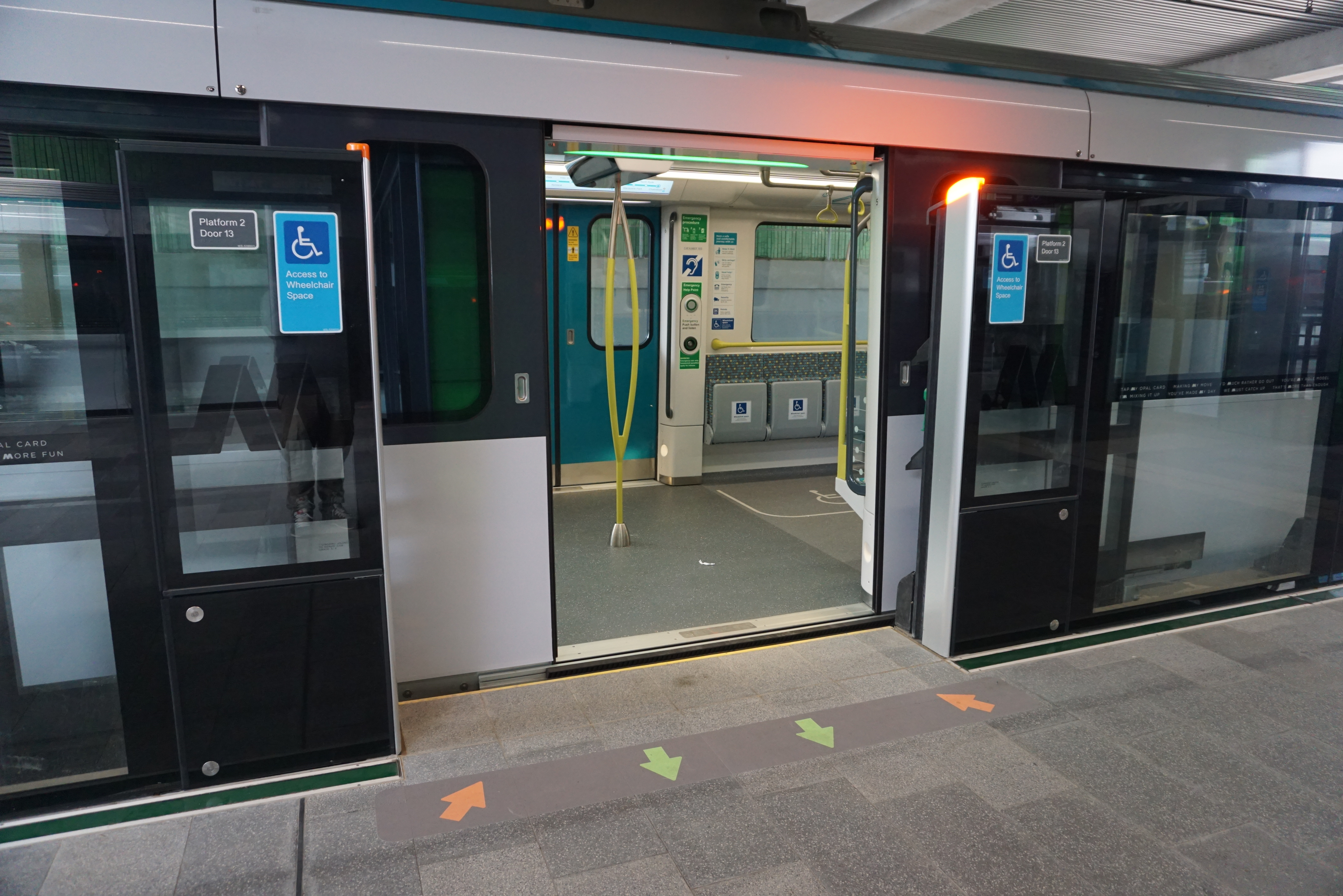 Sydney Metro